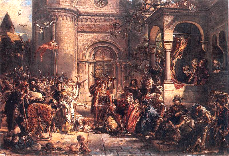 Reception of Jews in Poland by Jan Matejko (1889), oil study held at the Royal Castle Museum in Warsaw (see final painting, below).